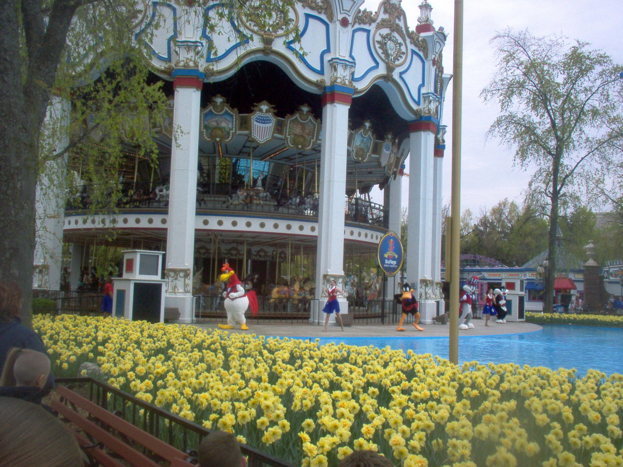 Six Flags Great America's Columbia Carousel, with yellow flowers in the foreground and Looney Tunes characters dancing with women in red and blue outfits in front of the carousel